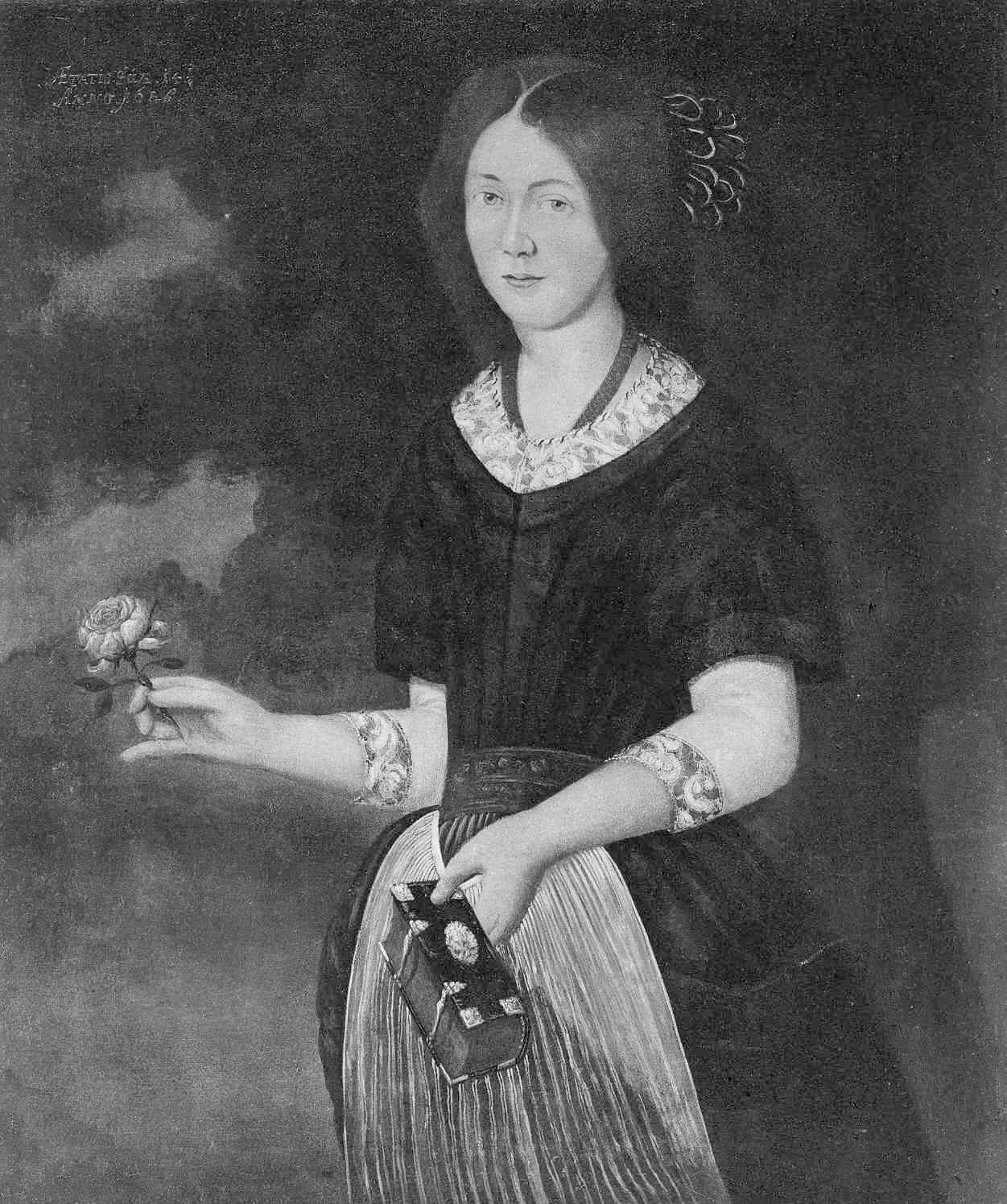 Susanne Morland, married to Hans Paus (1656-1715)